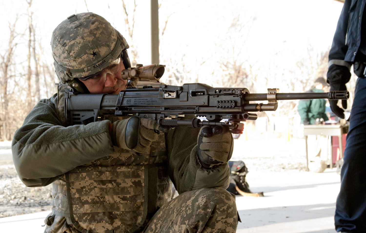 PICATINNY ARSENAL, NJ -- Brig. Gen. Jonathan A. Maddux, Picatinny Senior Commander and PEO Ammunition, fires the inaugural shot at Picatinny Arsenal's new small arms range on Dec. 16. Maddux is firing the Lightweight Small Arms Technology Light Machine Gun (LMG), which is currently in the technology base by the Armament Research, Development and Engineering Center at Picatinny. With a basic load of 1,000 rounds, the LMG and its cased telescoped ammunition is 20.4 pounds lighter than a traditional M249 Squad Automatic Weapon with the same amount of standard, brass-cased ammo.